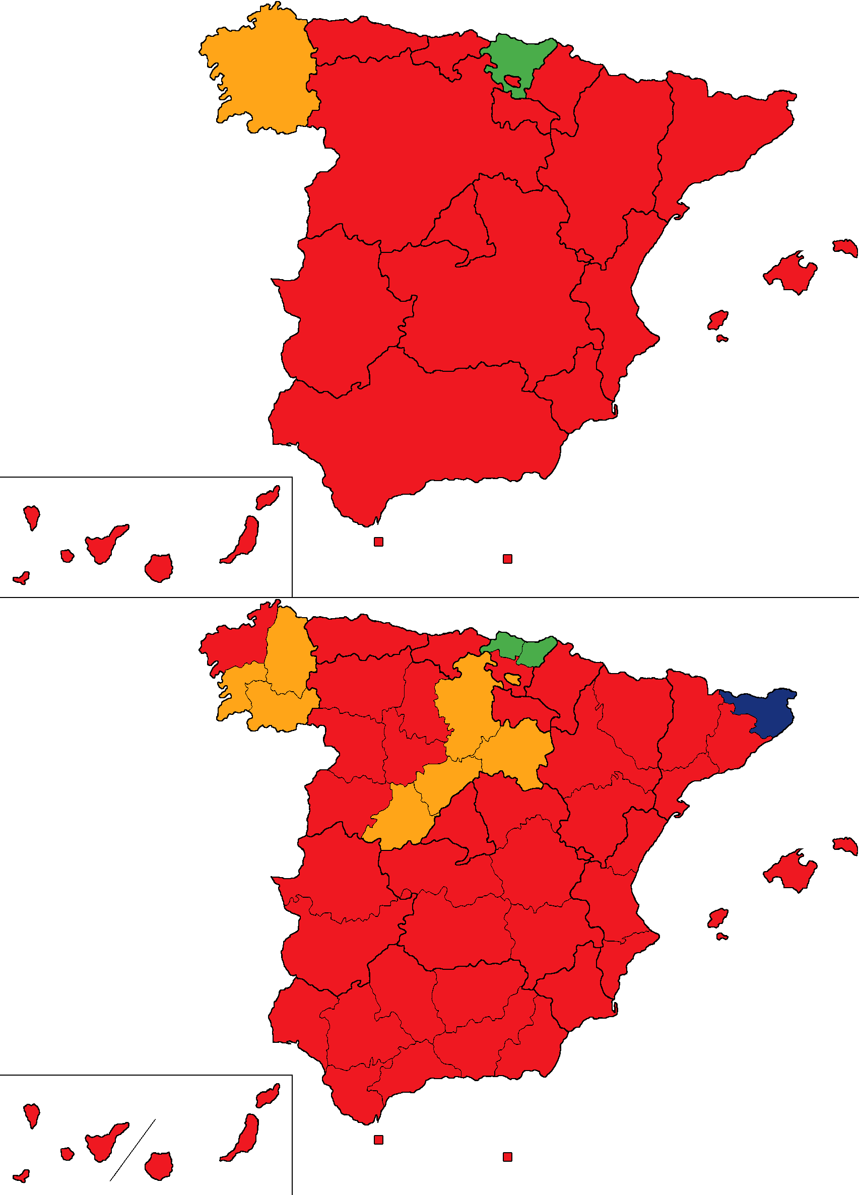 Most voted party in the 1982 Spanish Congress of Deputies election by autonomous communities and provinces.